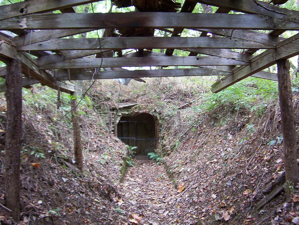 Entrance of Fort Wright (historical) in Randolph, Tennessee. I made the photo myself, feel free to use it.